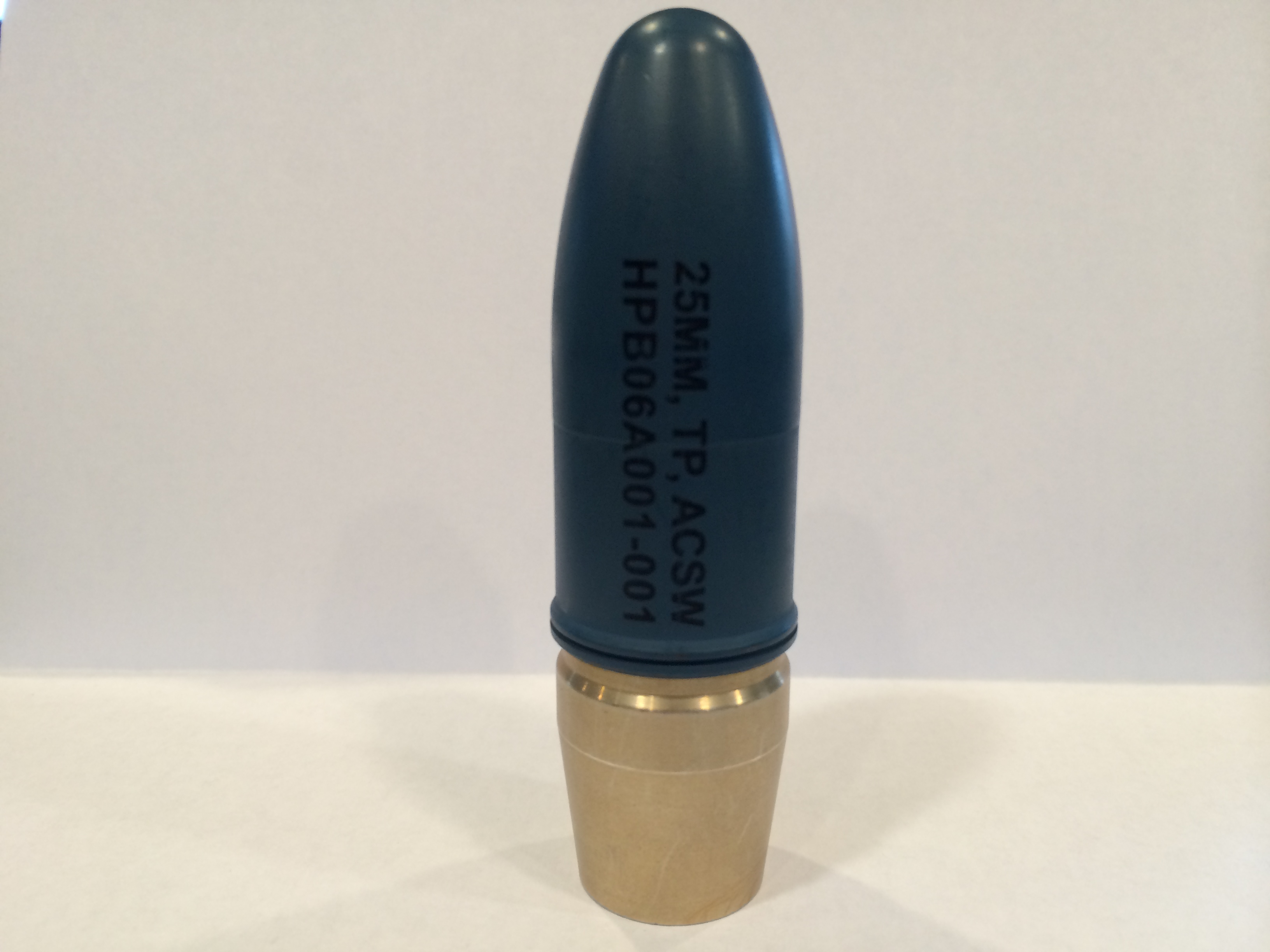 Photo of 25mm TP ACSW projectile